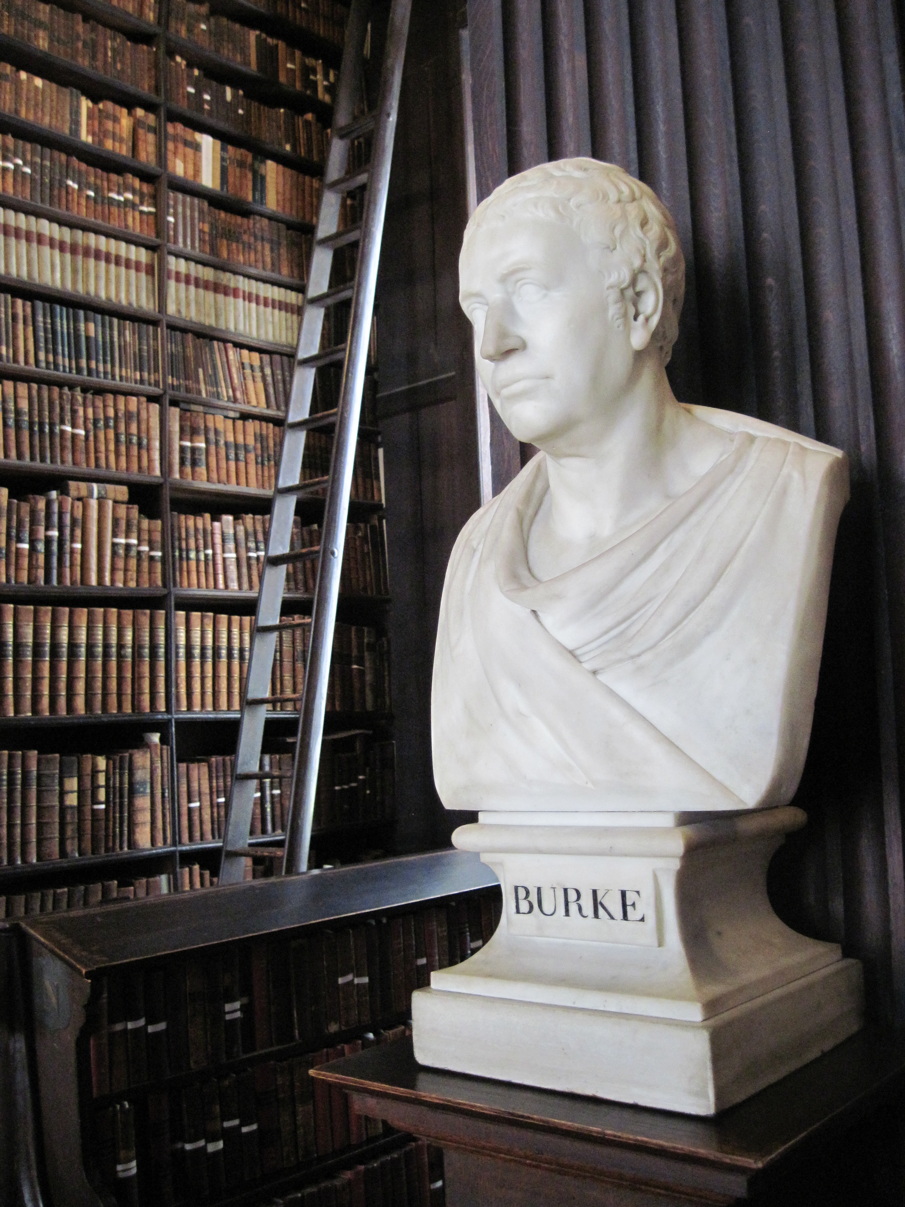 Long Room-Trinity College